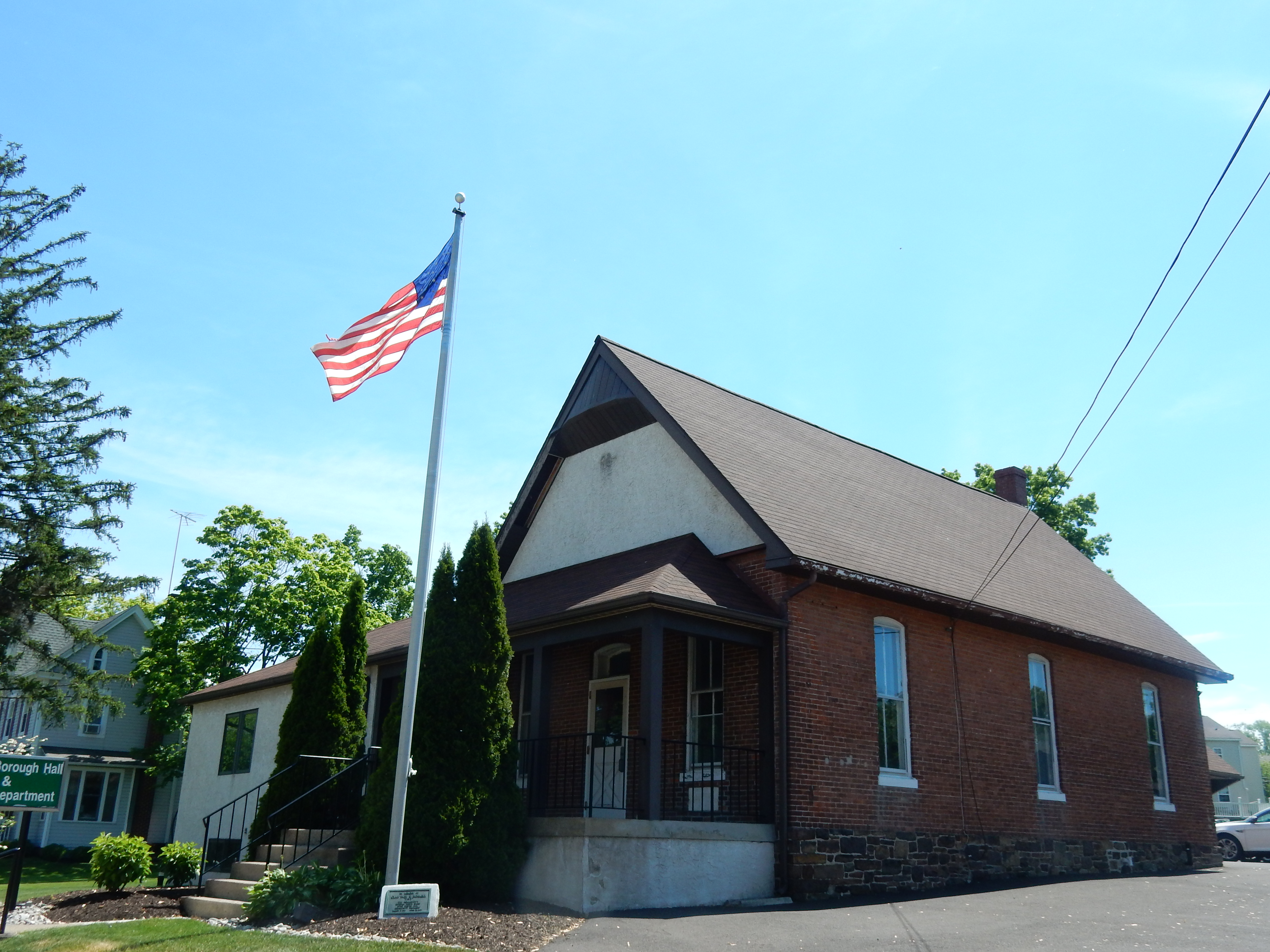 Dublin Borough Hall and Police Department, 119 Maple Avenue, Dublin, Bucks County, PA.